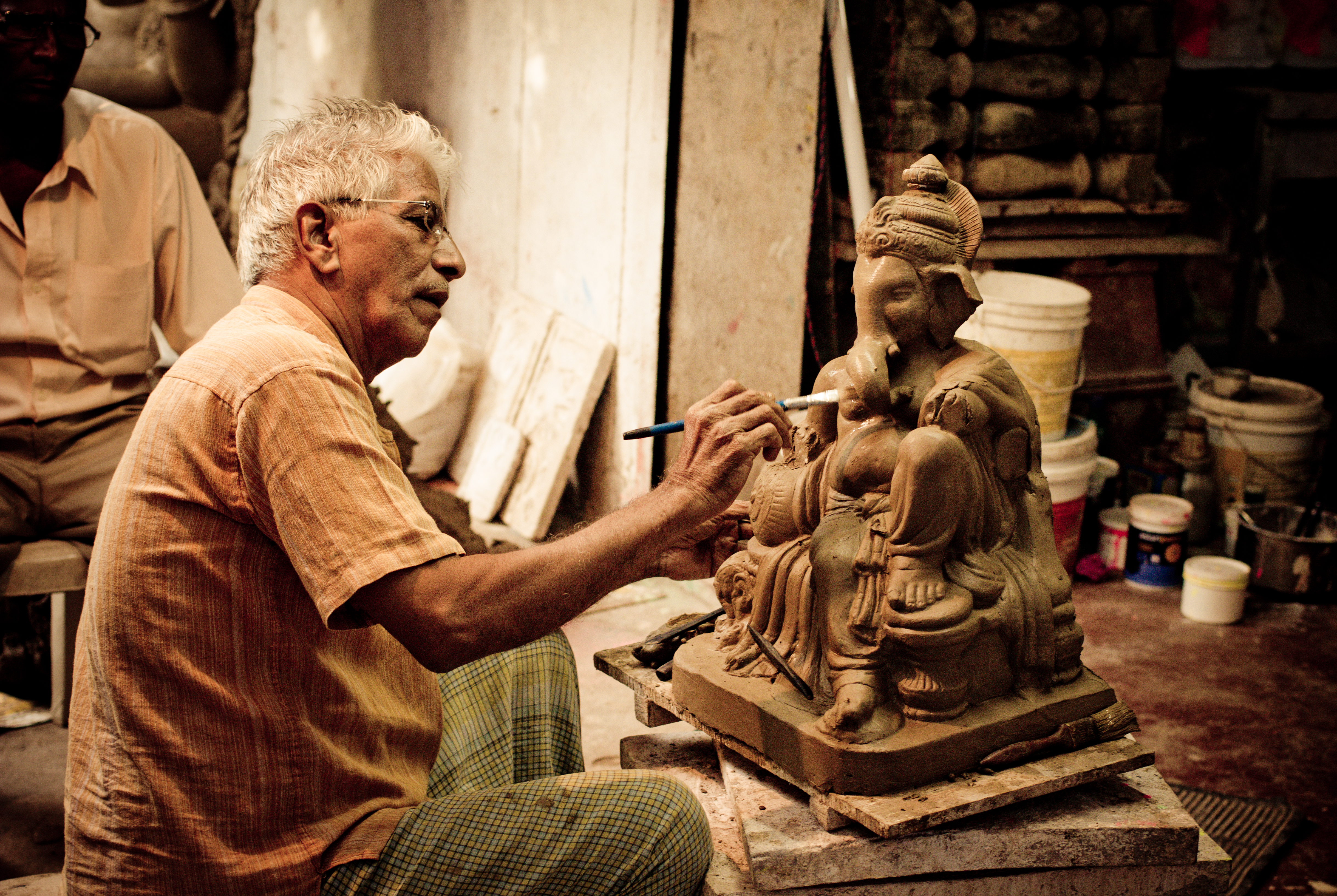 An artist at work,Ganesha Chitrashala @ Goa,India